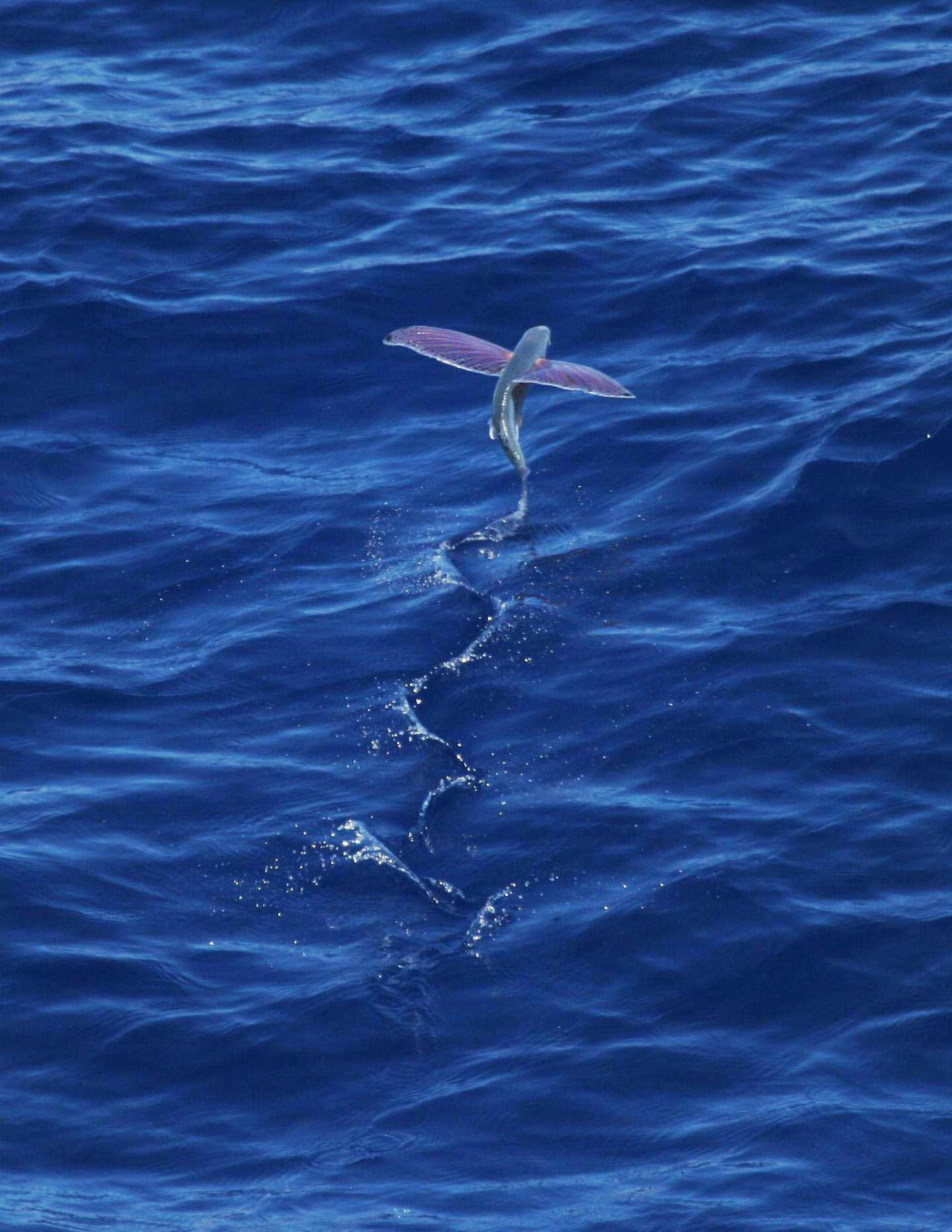 Flying fish shortly after take-off